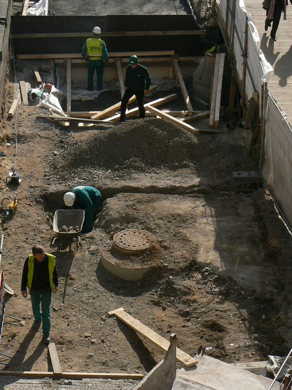 Workers reconstructing the Charles Bridge in Prague, Czechia (March 2008)